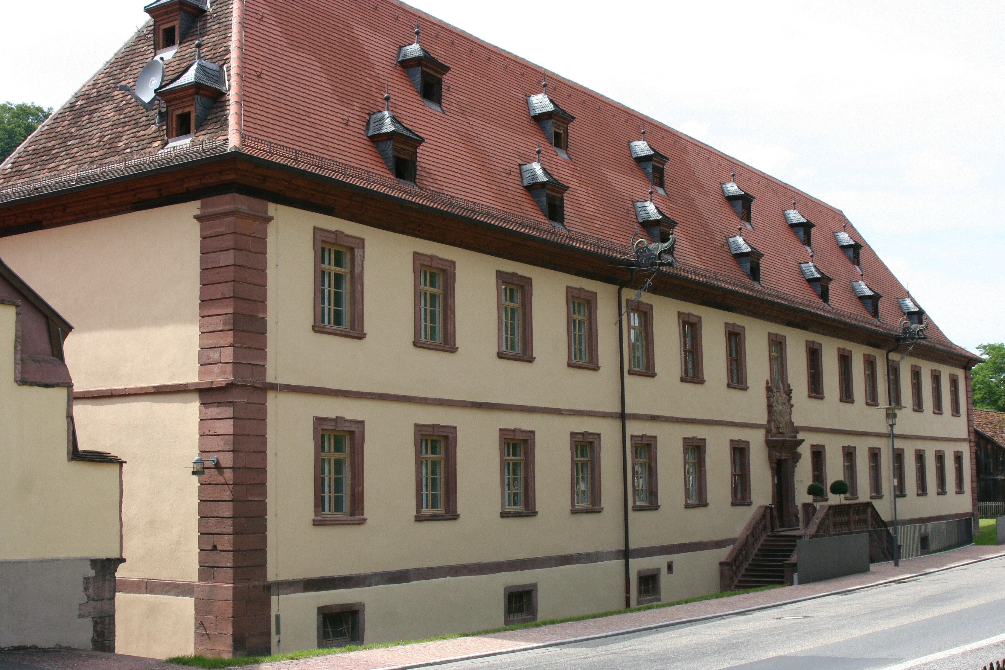 Bronnbach Abbey. Bursariat (former seat of the abbey’s administration